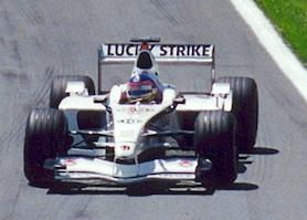 Jacques Villeneuve driving for British American Racing at the 2001 Canadian Grand Prix.